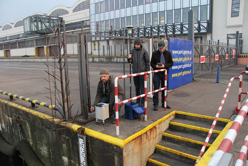 Gravimetric measurements in Gdynia